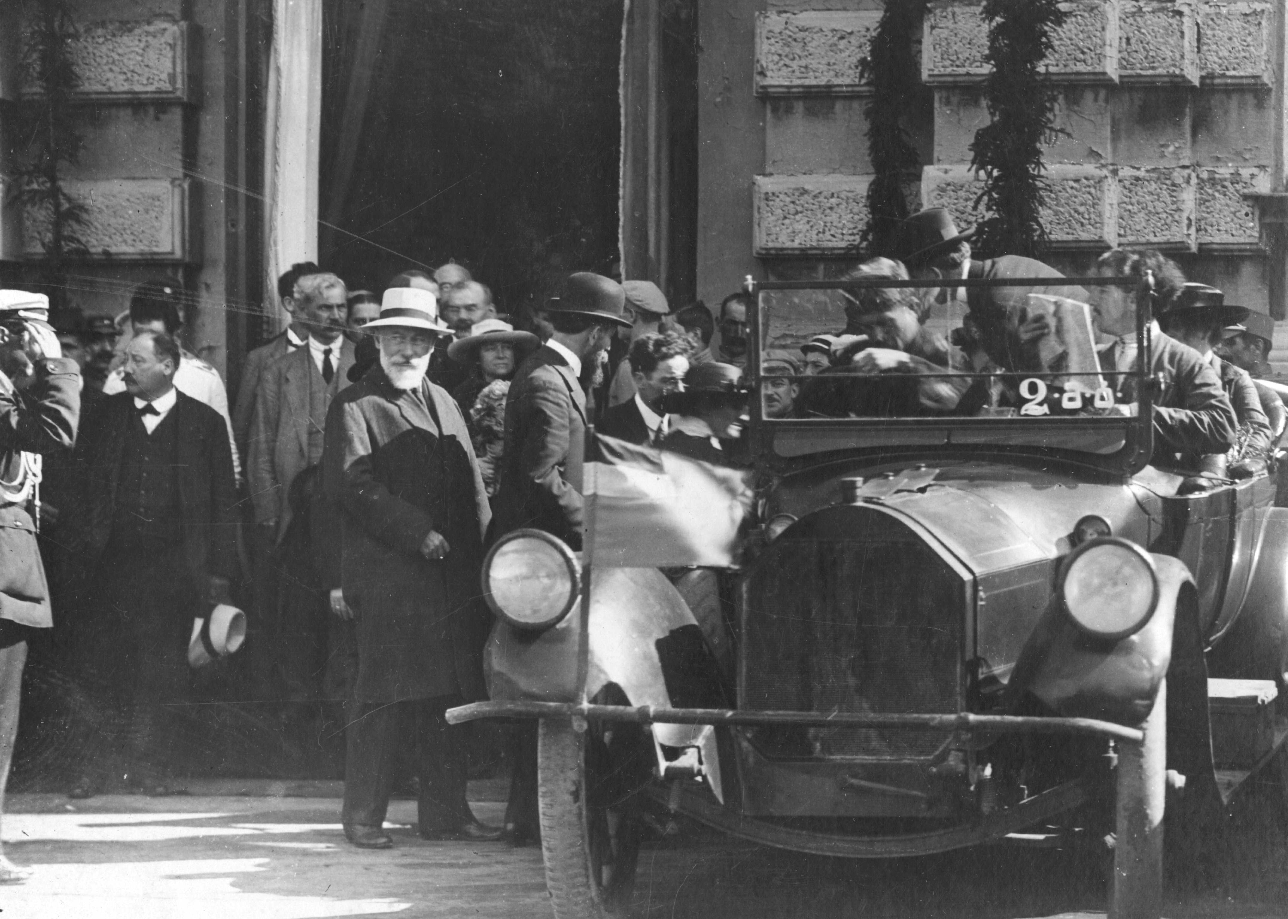 The Chairman of the Georgian government Noe Zhordania and the Mayor of Tbilisi Benia Chkhikvishvili depart for the meeting with the Second International delegation in Georgia. 1920